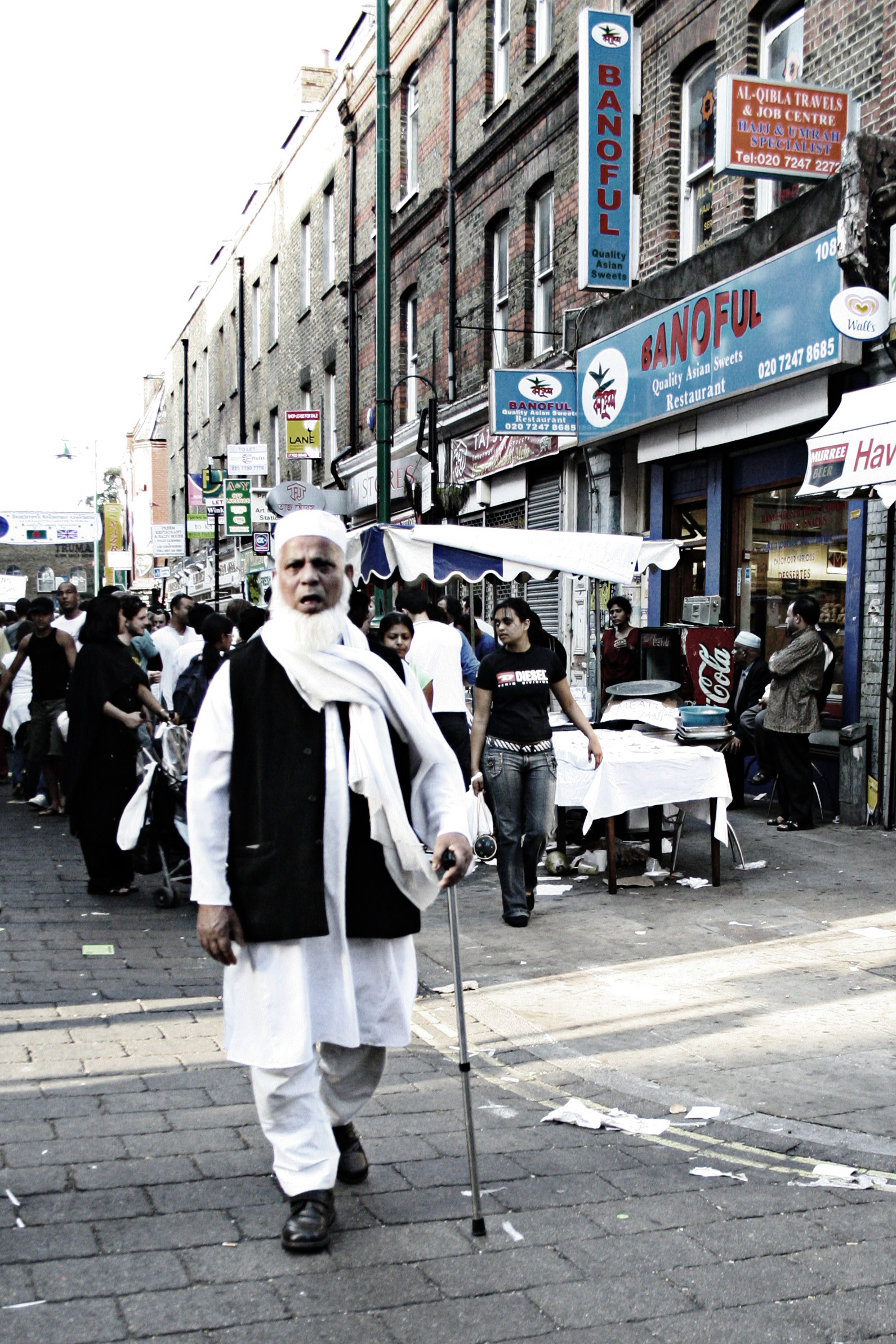 An eldery Bangladeshi man in Brick Lane, London.